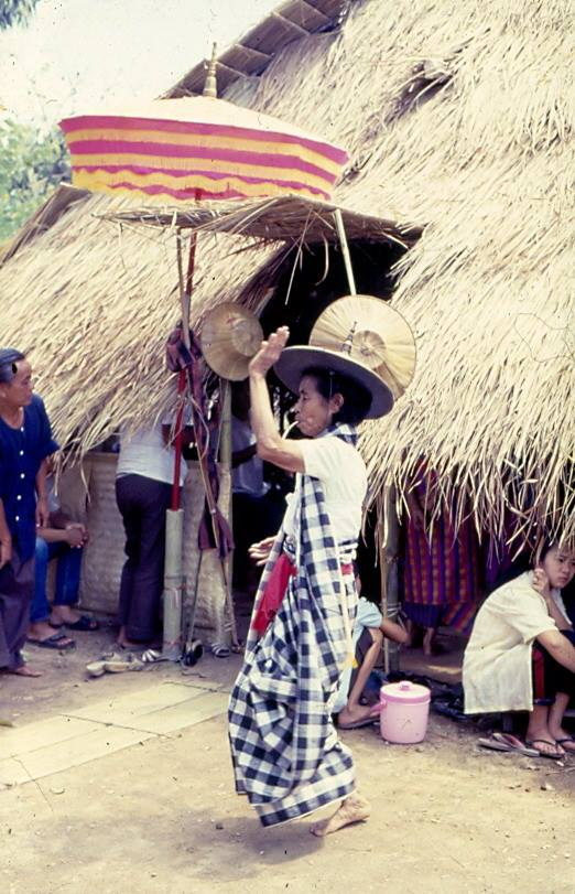 During the ritual of spirit dance, the tradition in Thai's northern (picture from Lampang).